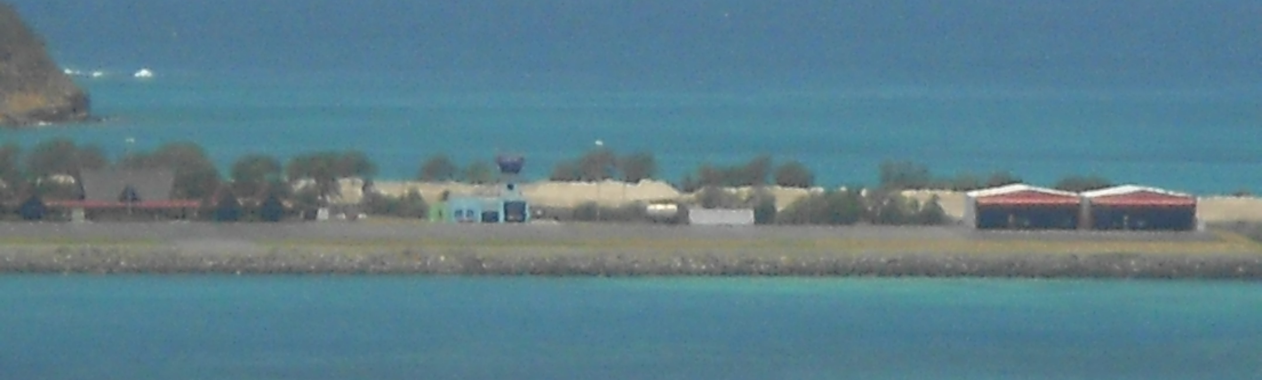 Canouan Airport from across the bay